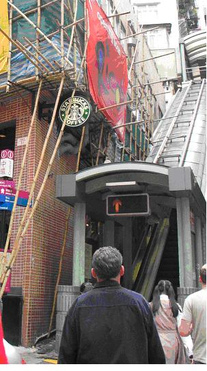 An entrance to the Central-Mid levels escalator.